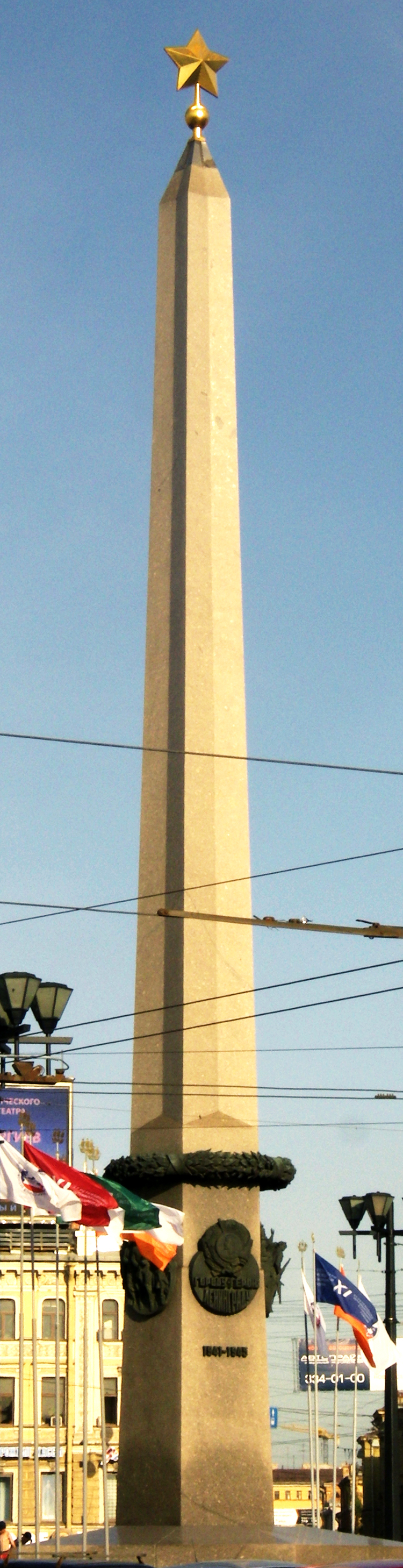 Architects Vladimir Lukyanov and A. I. Alymov. Hero-City Obelisk (Leningrad). Obelisk is located in Vosstaniya Square (Saint Petersburg — Leningrad). Installed in May 1985 and the fortieth anniversary of the Victory Day (May 9) in Great Patriotic War.